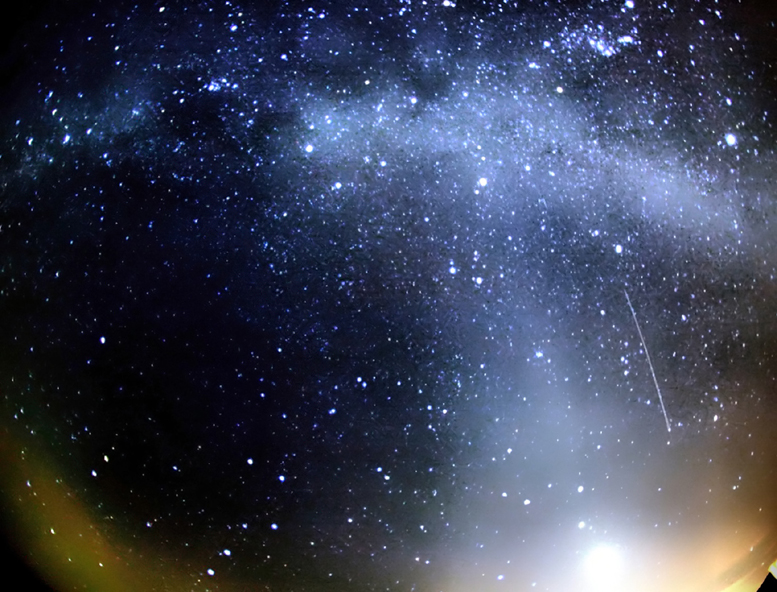 Orionid meteor striking the sky below Milky Way and to the right of Venus and Zodiacal light